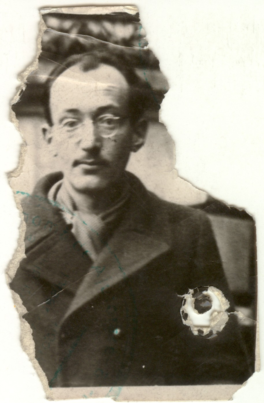 Father in Bucharest in January 1945 in a military overcoat. (The size of the original photograph is 5,5 x 4,0 cm.) Sixty-eight percent of Budapest Jews, aged 20-40, serving in labor service died during the war. My father deserted his unit in Trasnssylvania and ran over to the Soviet Side of the front. /A Soviet soldier shot an alarm shot that hit father. The bullet went through his thigh. Father was hospitalized in a village named Külhalom, whence he escaped with the help of the hospital director who said: "You will soon be released from hospital. I ought to hand you over to the gendarmarie and then you are to testify that you were not a soldier and then you will be released. But....if you want to escape, I give you some money for the train." (OHA)/ Father first went to Brassó and then to Bucharest, where he received help from the JOINT. Before returning to Hungary, he lived for several months in Bucharest.